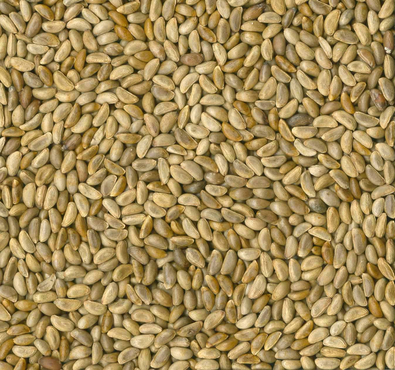 Celastrus scandens L. - seeds - Pfiffner, L., USDA, ARS